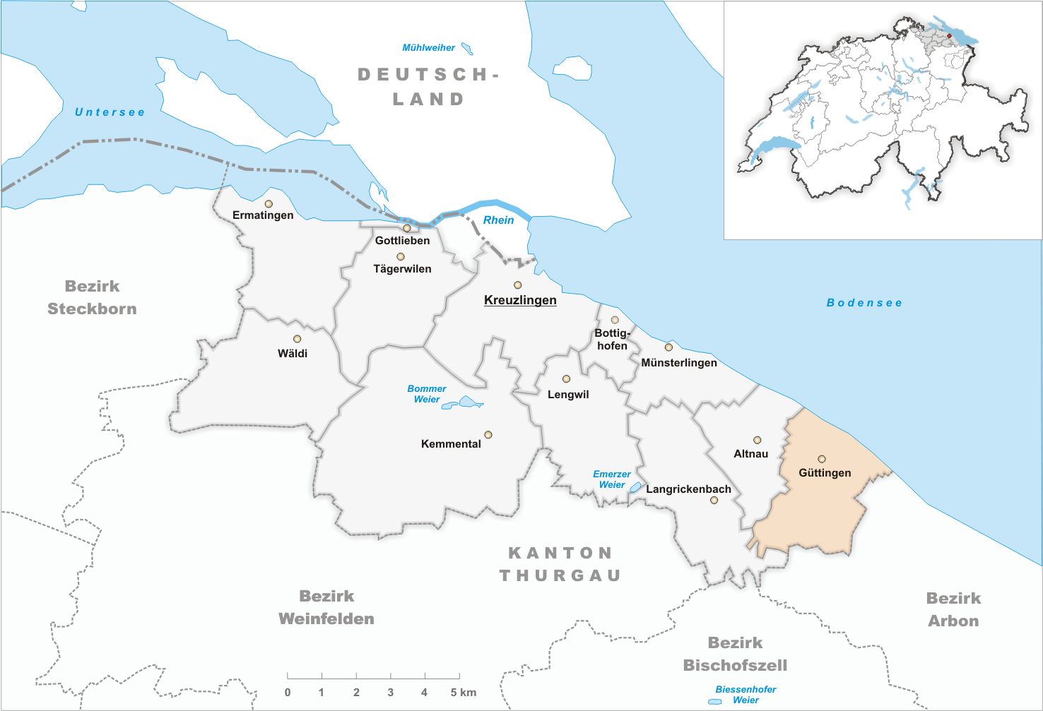 Municipality Güttingen